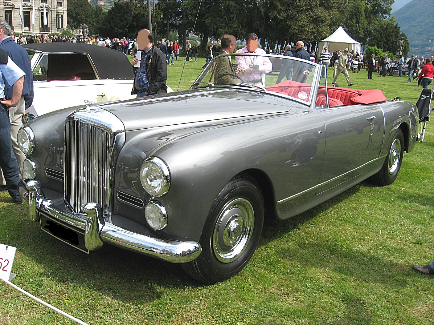 Bentley S1 Covertible, coachbuilding by Hermann Graber Event:Concorso d’Eleganza”Villa d’Este” 2008 Place/Country: Cernobbio (CO), Italy I release all rights in the public domain.